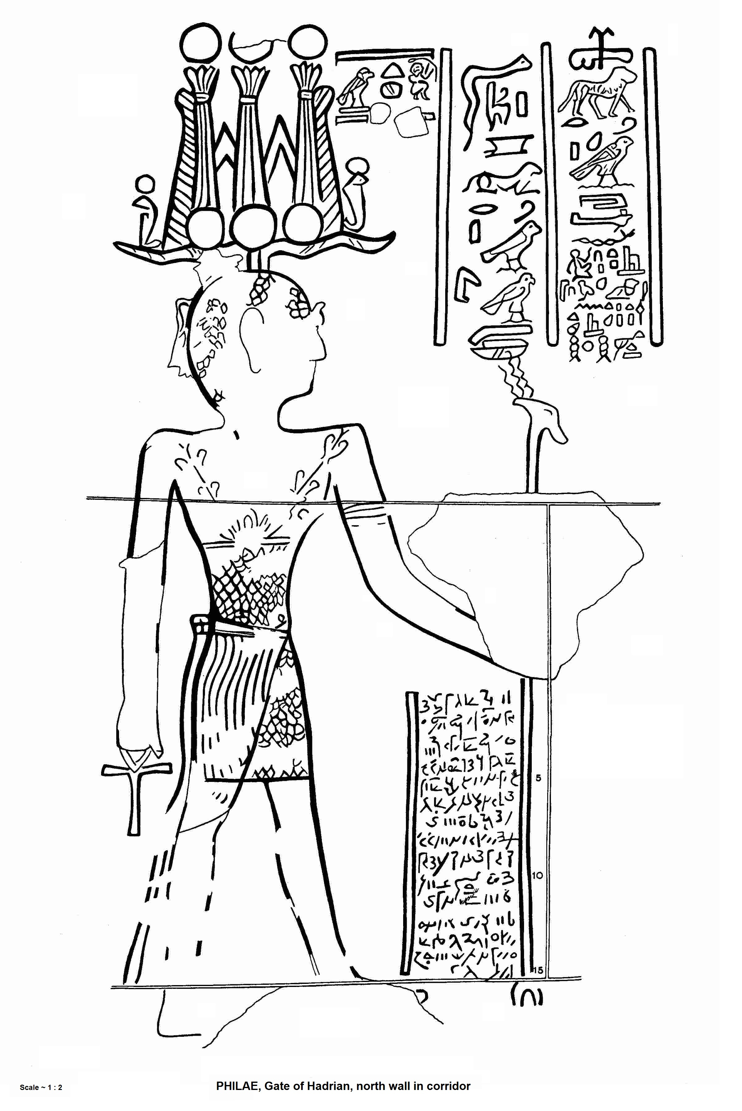 Graffito of Esmet-Akhom, Egypt, Philae temple, Gate of Hadrian, northern wall in corridor. Last hieroglyphic script ever written.